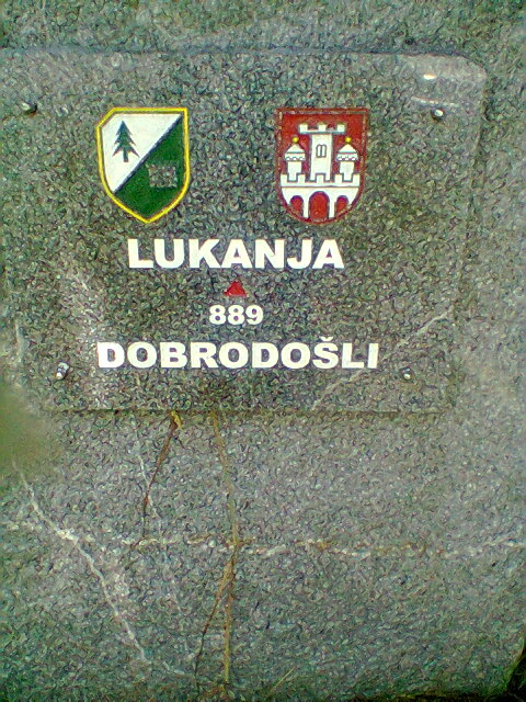 Inscription plate at Lukanja, Slovenia